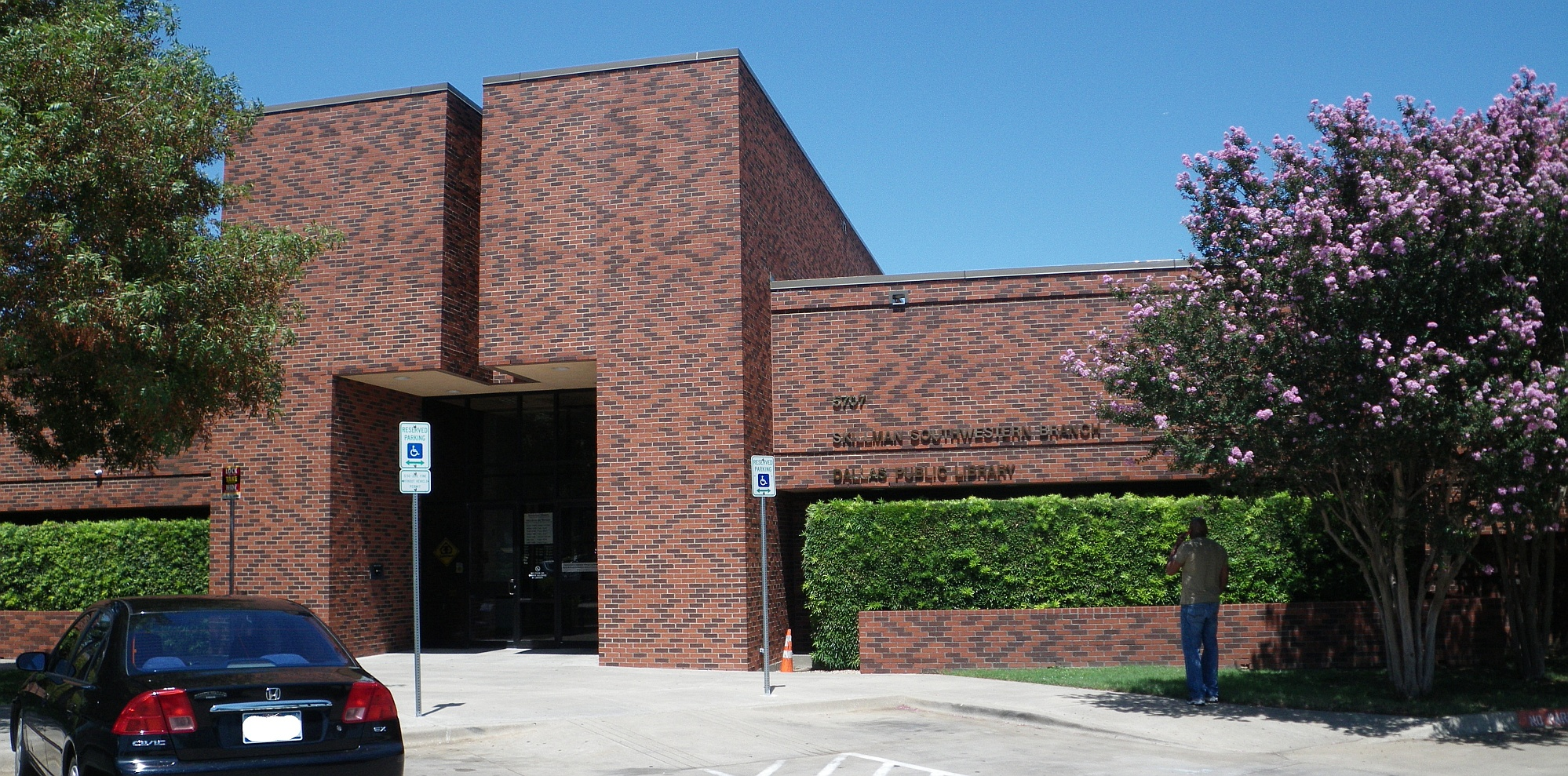 Skillman Southwestern Library 5707 Skillman St Dallas, TX 75206-2801